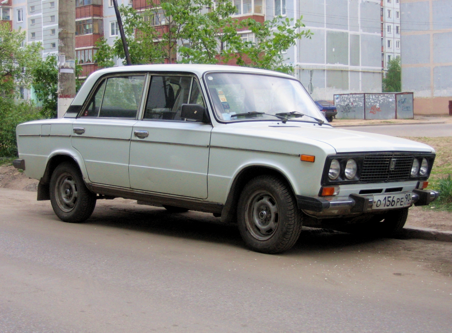 VAZ-2106 of "IzhAvto" (builded in 2004)